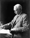 William Douglas Caröe was born in 1857 in Liverpool and was educated at Trinity College, Cambridge where he took a degree in Mathematics. After leaving University, he became articled to a Liverpool architect, E.B. Kirby but in 1882 was taken on by the noted Victorian architect, J. L. Pearson.